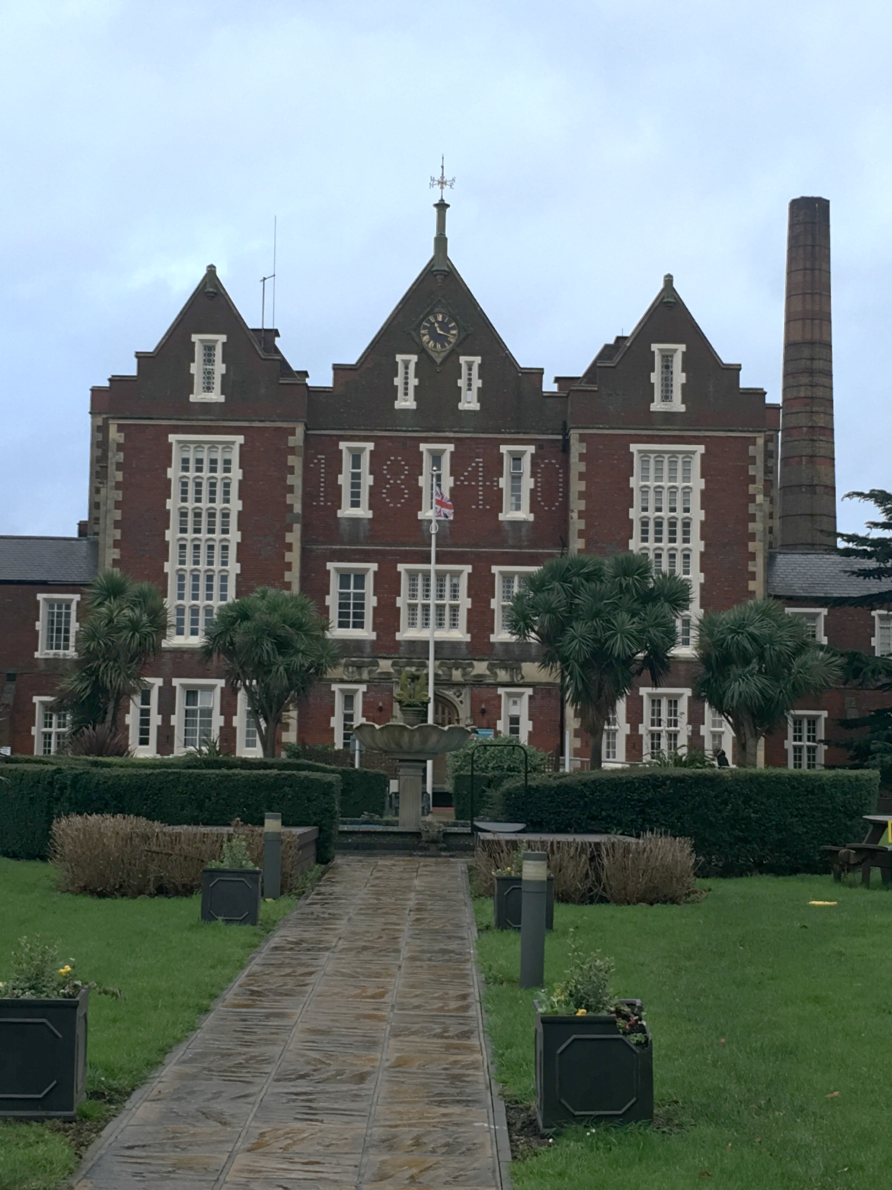 Photo of the front of the old building of Springfield University Hospital in Tooting, London. It is a former asylum which opened in 1840. Currently used as offices (called Building 14) it is due to be turned into flats. Listed building.